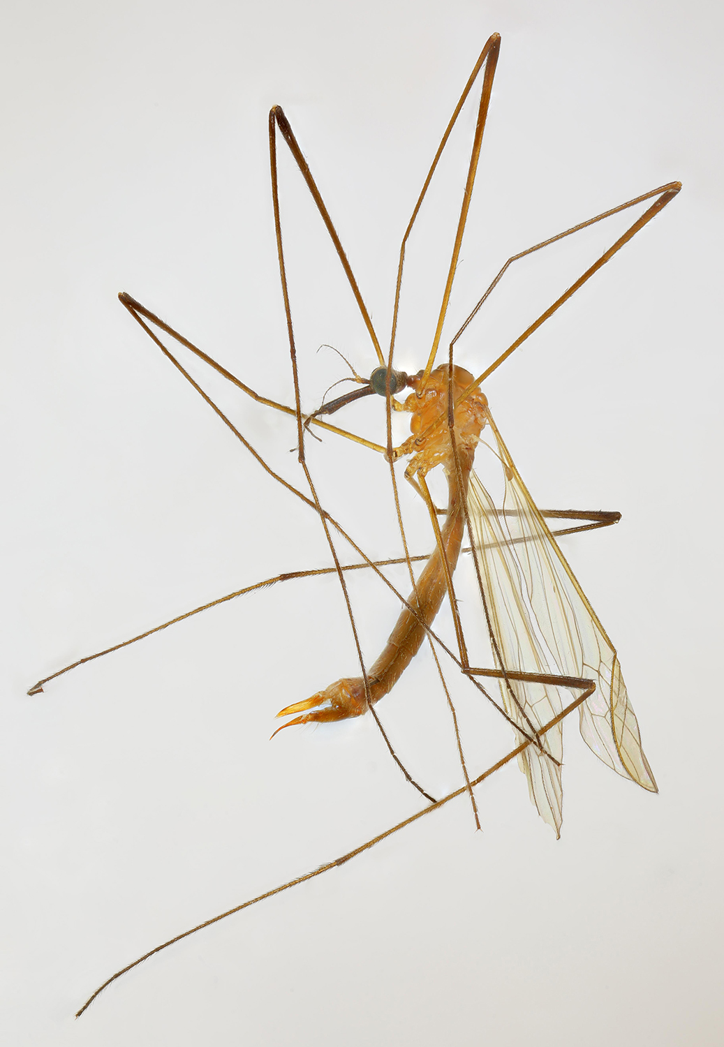 Helius flavus, Nant Gwrtheyrn, North Wales, June 2015